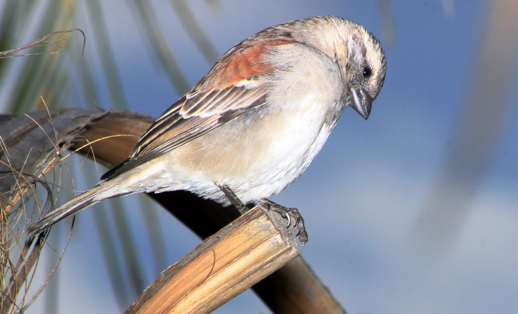 A female or immature Cape Sparrow in Johannesburg, South Africa